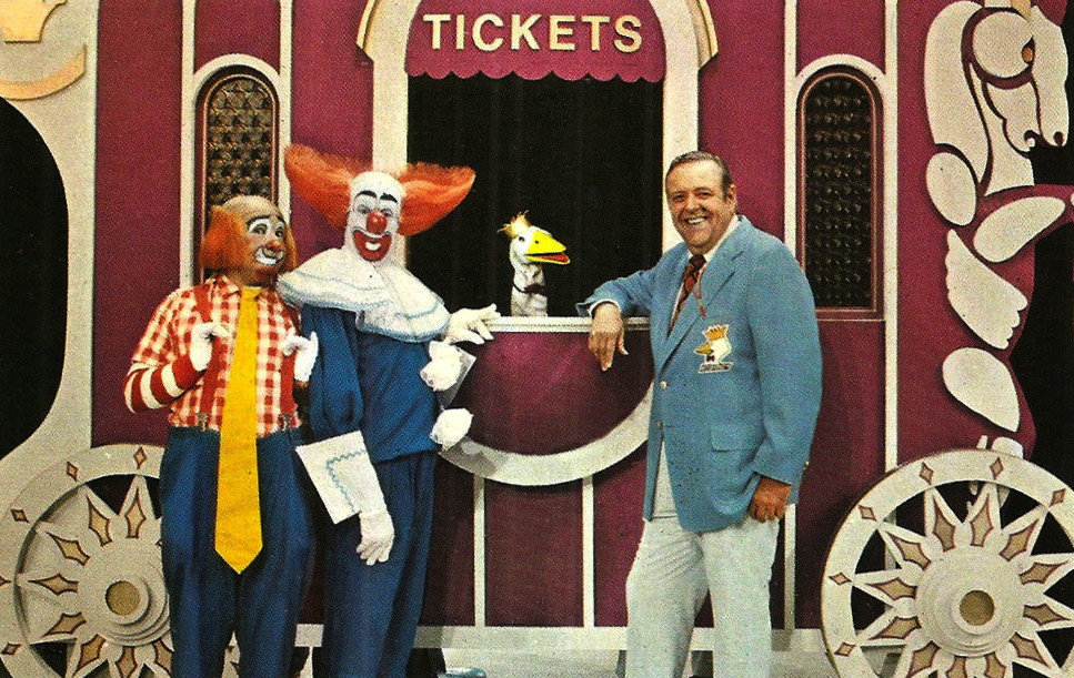 Postcard of Cooky the Clown, (Roy Brown), Bozo, (Bob Bell), Garfield Goose and Frazier Thomas on Bozo's Circus on WGN-TV.